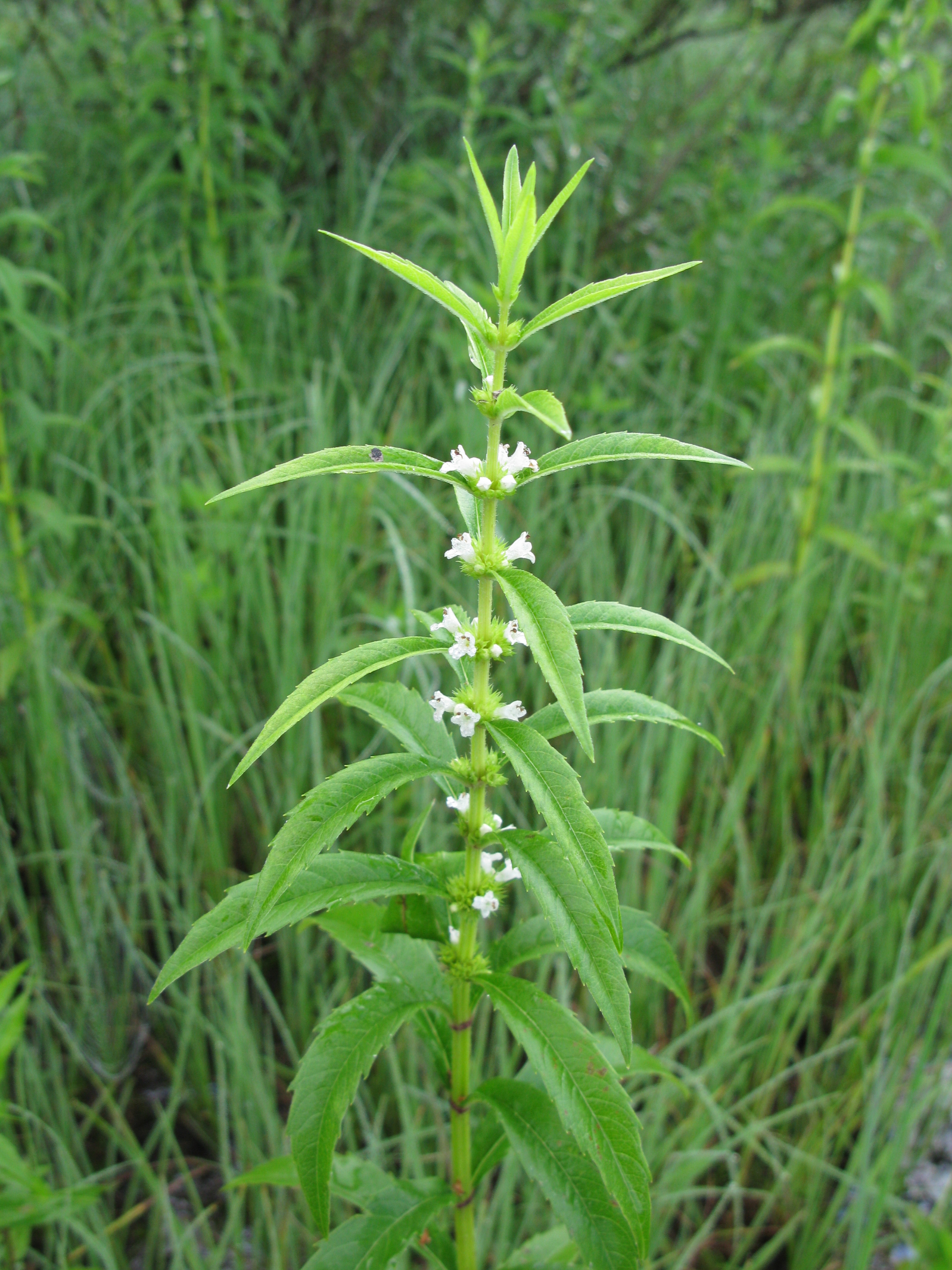 Lycopus lucidus, Lake Hibara-ko, Fukushima pref., Japan